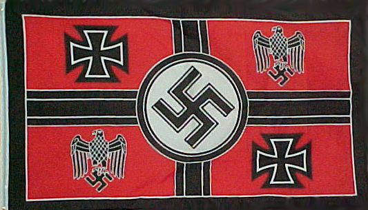 Flag of the War Minister nad Commander-in-Chief of the Wehrmacht of Nazi Germany 1935–1938